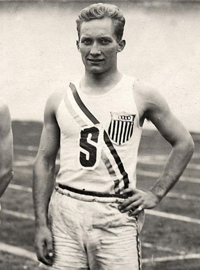 George Baird, US olympic champion